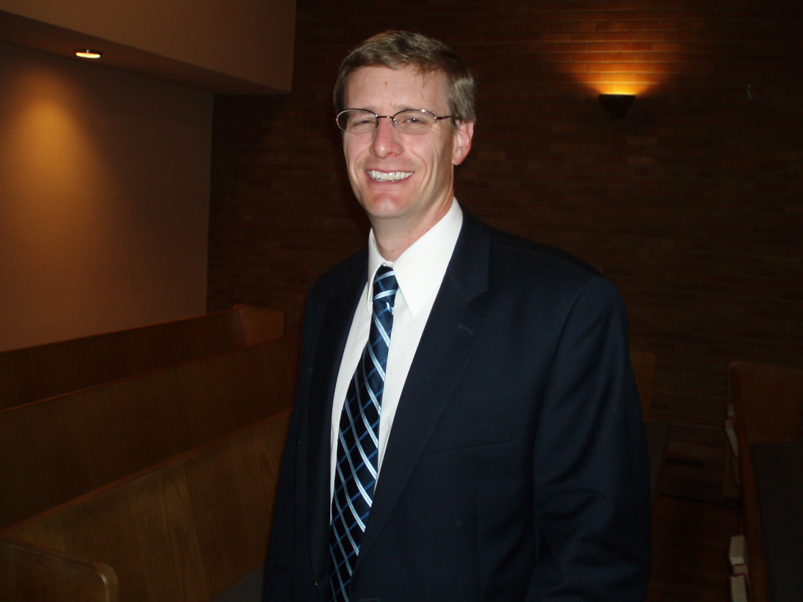 David M. Van Drunen after a sermon at Mission Orthodox Presbyterian Church-Saint Paul in Minnesota.